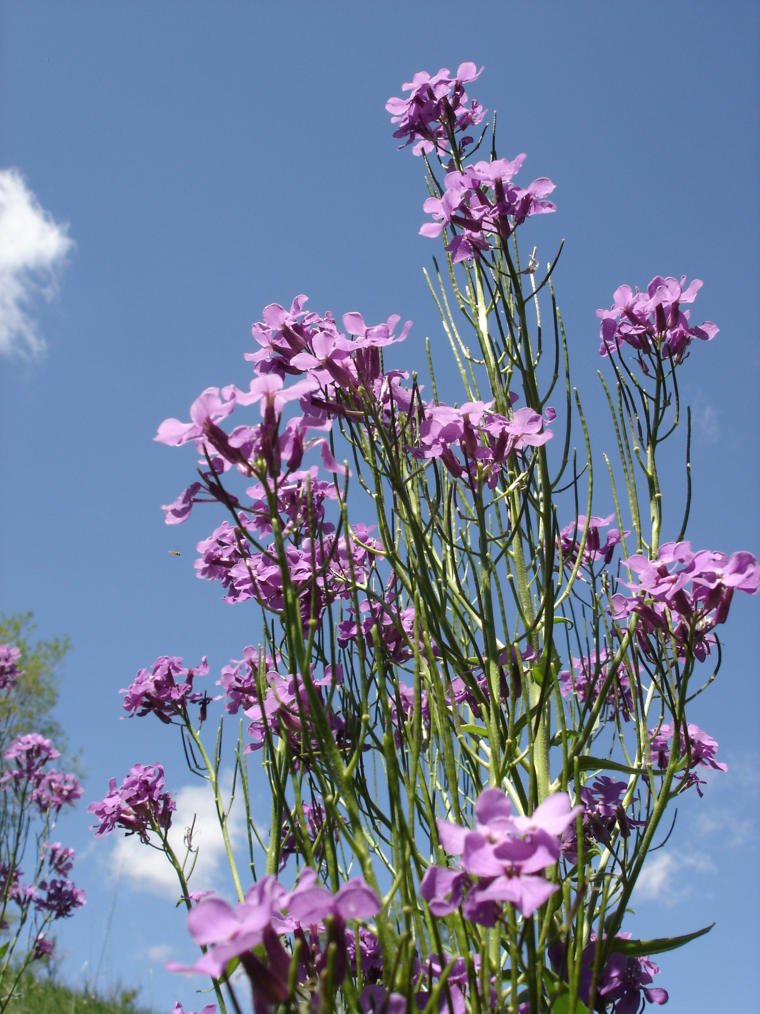 Dame's Rocket Hesperis matronalis in bloom. Iowa, USA.